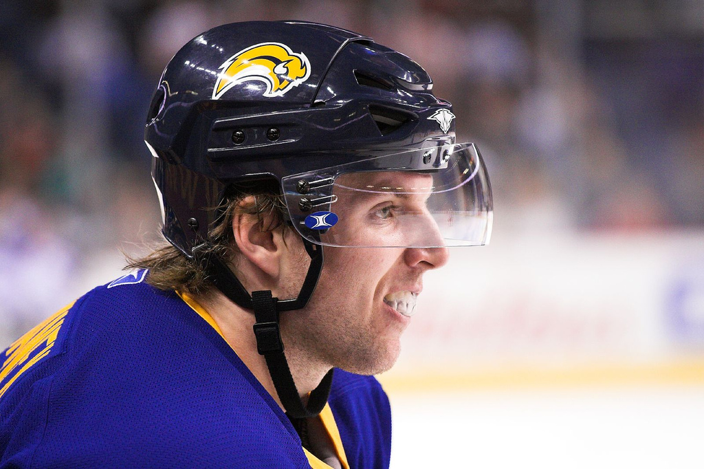 Thomas Vanek, Ice hockey player of the Buffalo Sabres